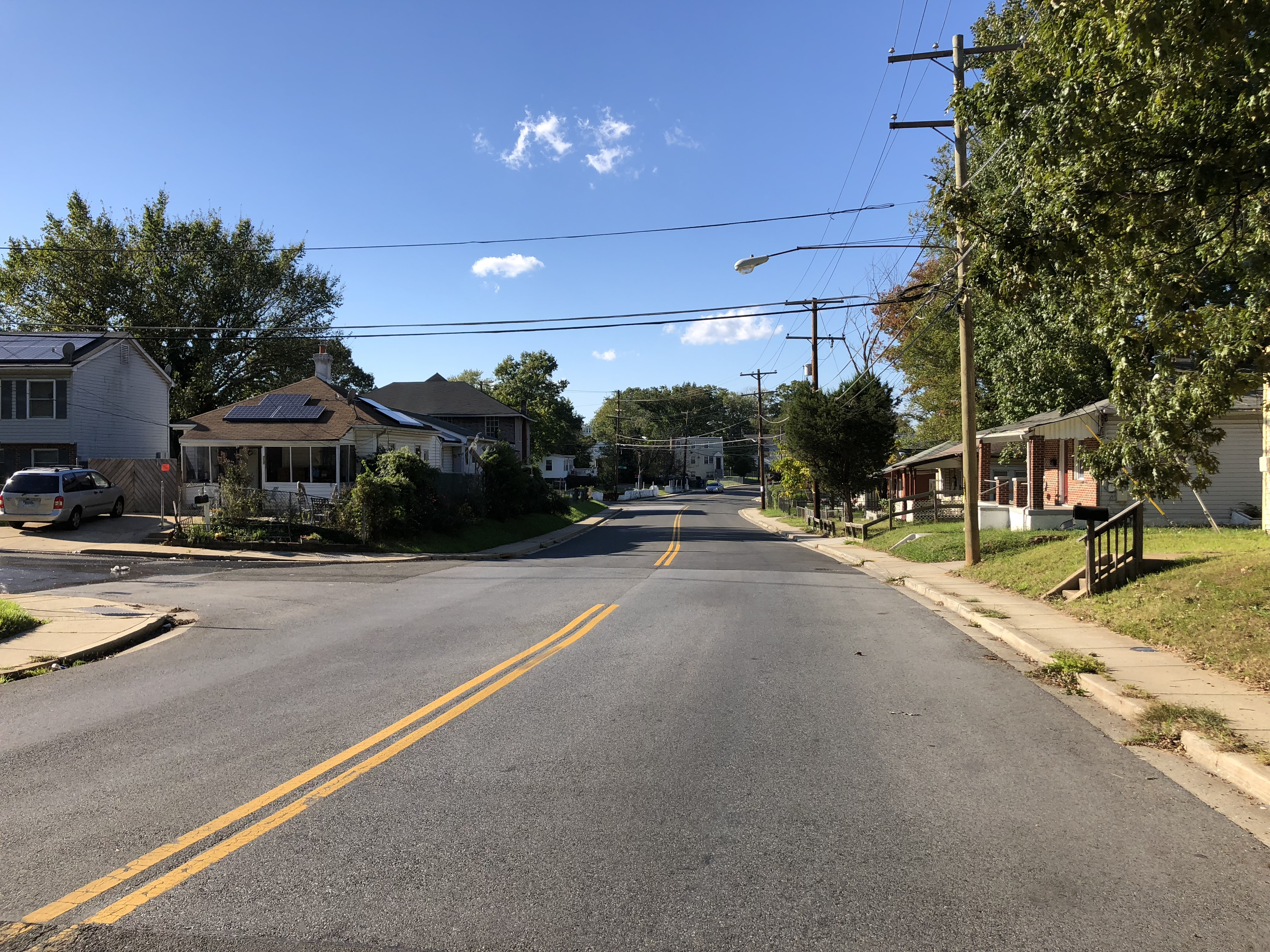 View northwest along Addison Road at 62nd Avenue in Fairmount Heights, Prince George's County, Maryland